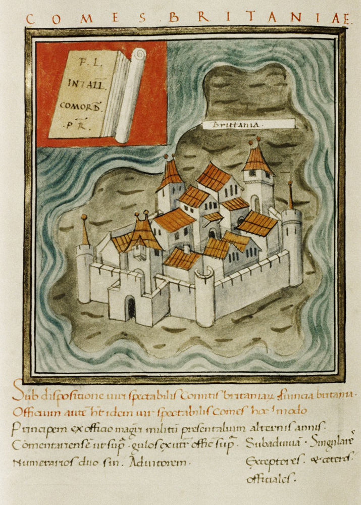 Depiction of the area Comes Britanniarum from folio 154 verso of the parchment manuscript Notitia dignitatum, with text in Latin